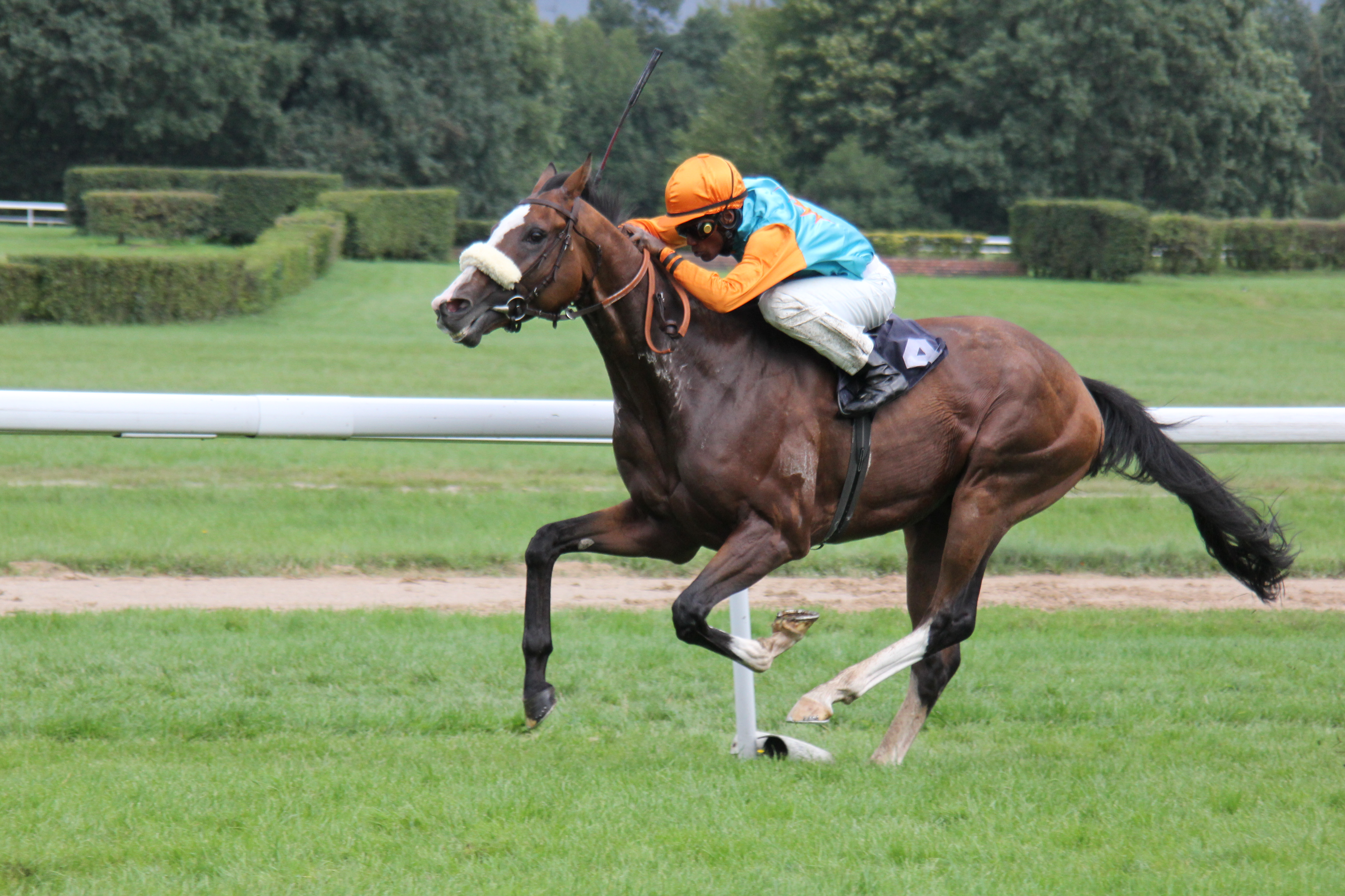 Eduardo Pedroza and Horse Earl of Tinsdal win the Rheinlandpokal (Rhineland-Cup) 2011 in Cologne-Weidenpesch